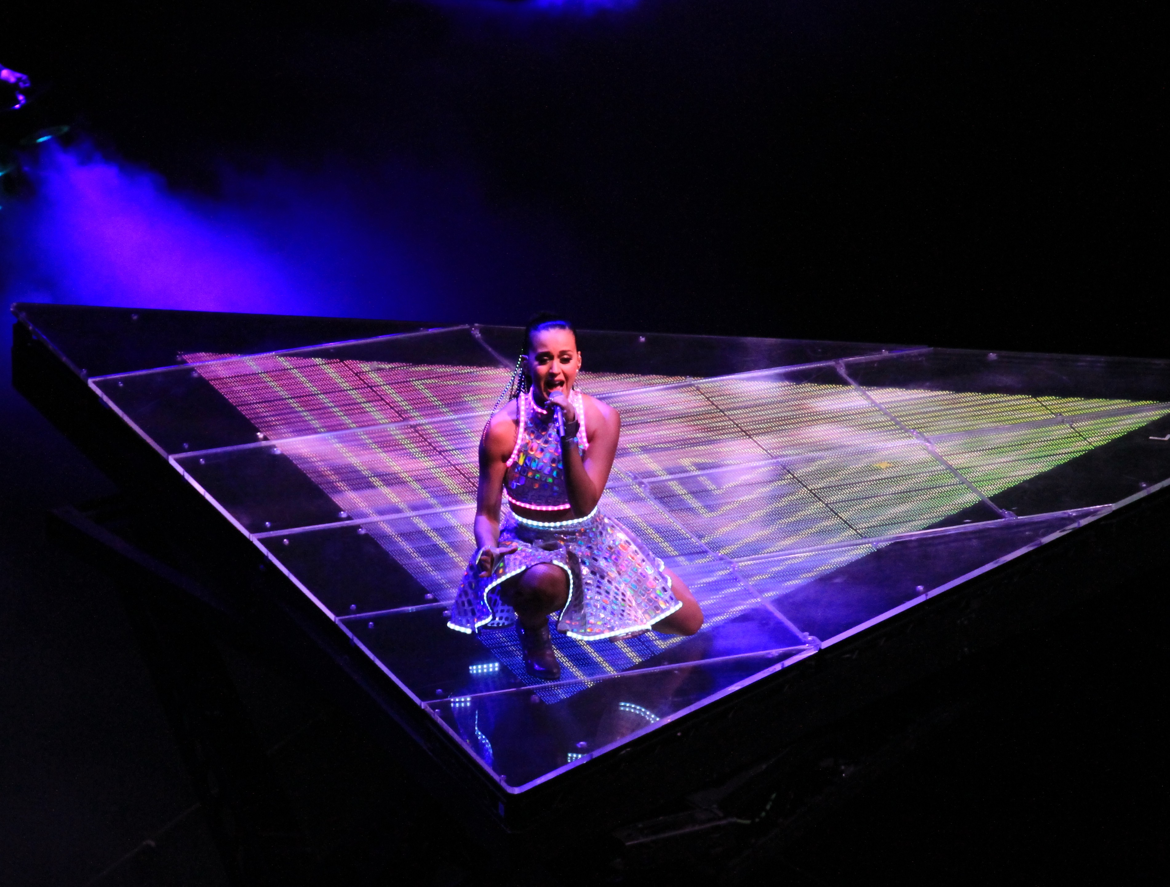 Katy Perry performing "Wide Awake" at Prudential Center in Newark in July 12, 2014.